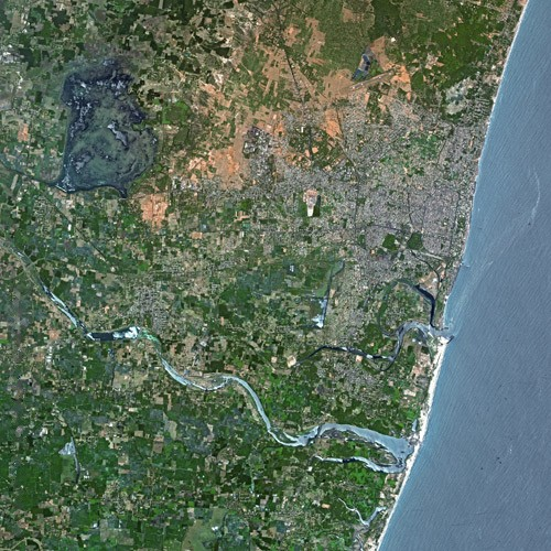 Puducherry by SPOT Satellite